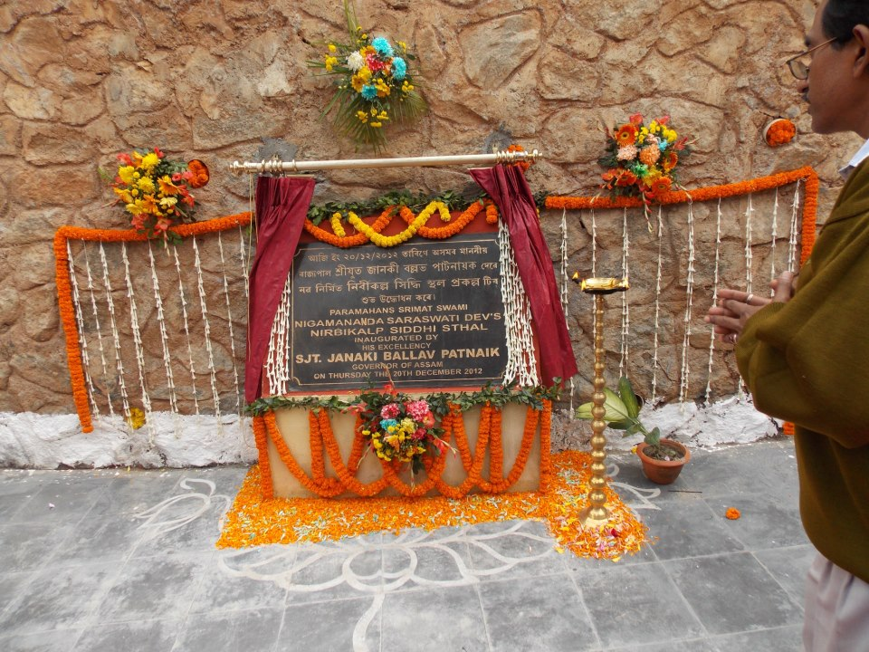 The place "Nirvikalpa samadhi" exprienced by Swami Nigamananda has been identified in the year 2012